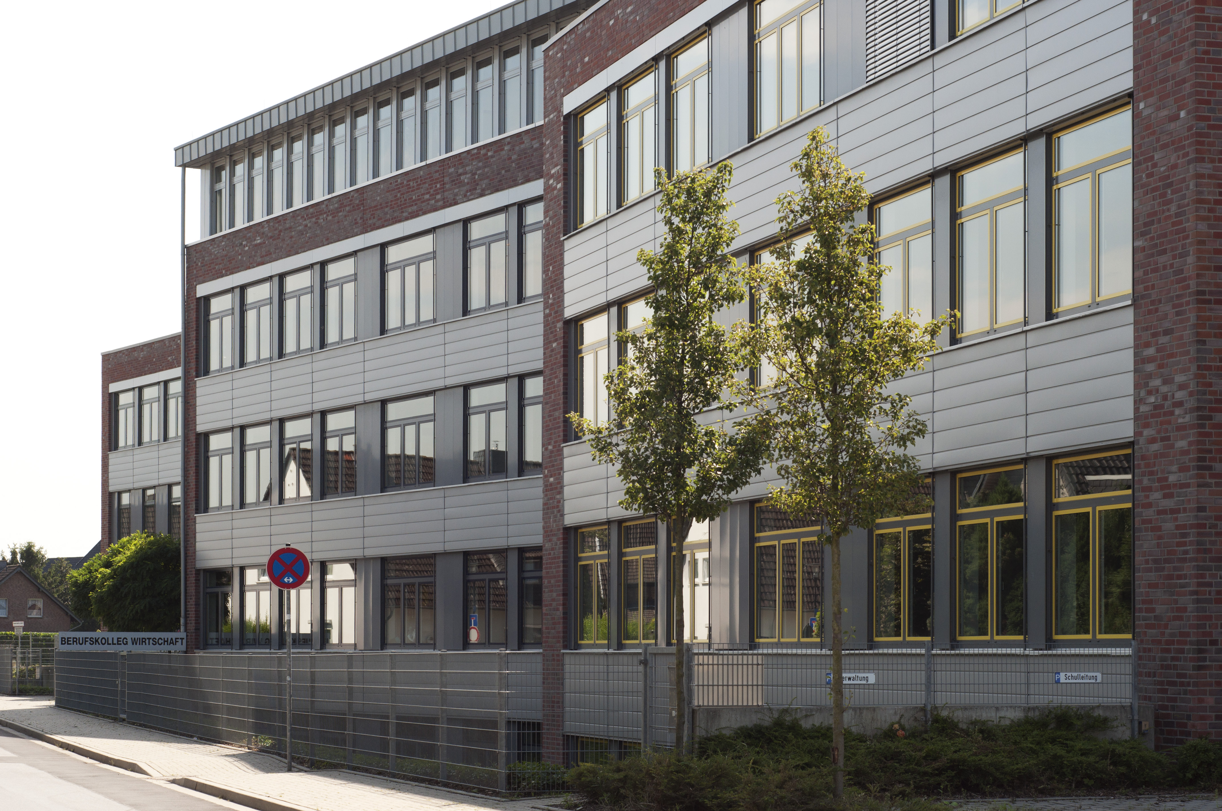 School